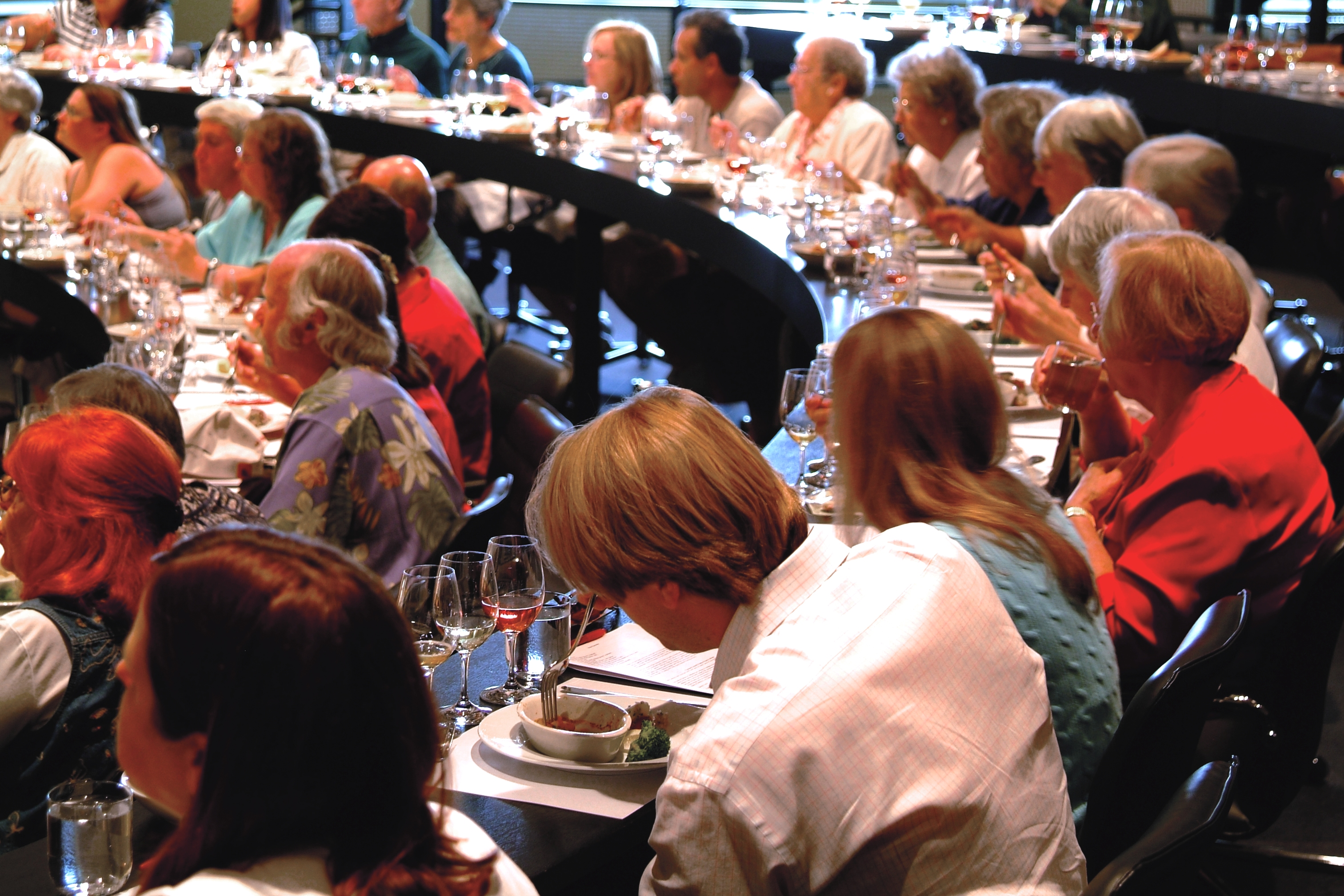 Food and wine tasting seminar at COPIA in Napa Valley, California